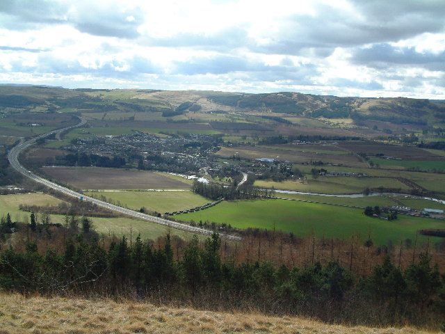 Bridge of Earn from Moncreiffe Hill. The bridge over the river Earn from which the town gets its name is in the centre of the photograph